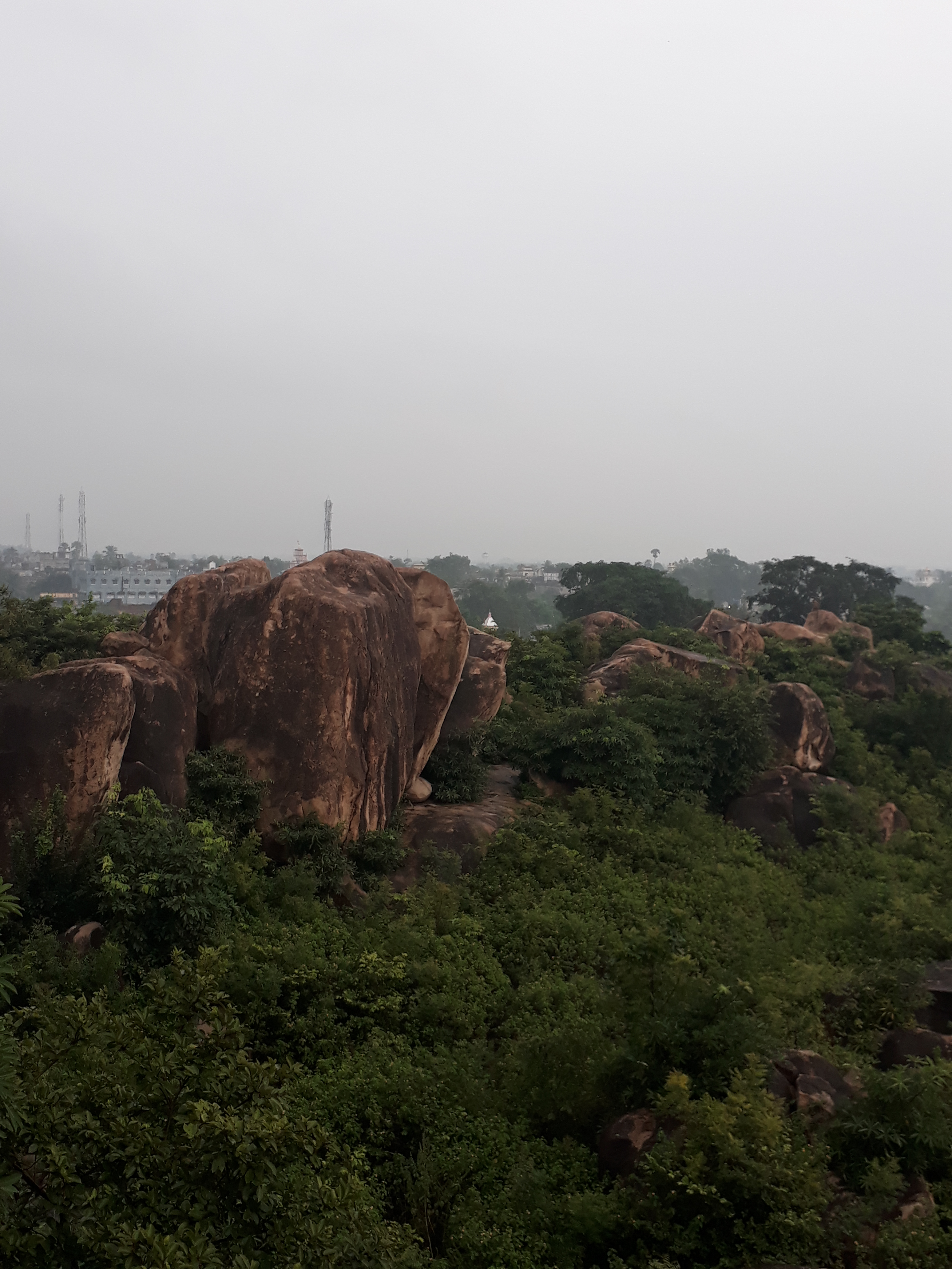 Mama Bhagne Hills and Temple in Dubrajpur town, Birbhum, West Bengal